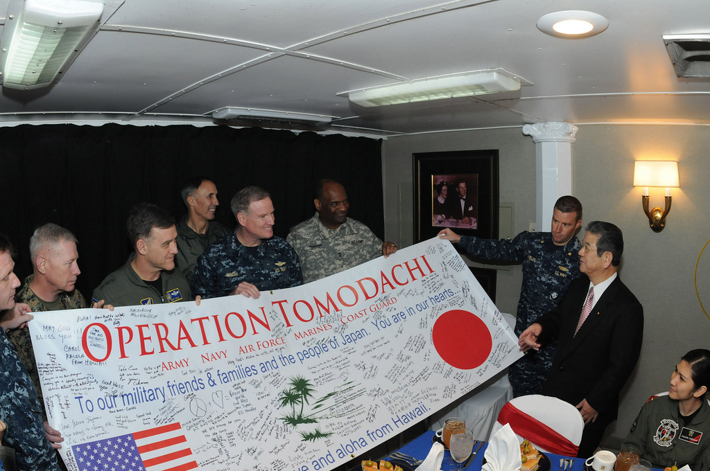 PACIFIC OCEAN (April 4, 2011) – Senior U.S. Navy, Marine Corps, and Army military members present Japan Defense Minister Toshimi Kitazawa an Operation Tomodachi banner in a ward room aboard the aircraft carrier USS Ronald Reagan (CVN 76). Senior U.S. and Japan leaders visited Ronald Reagan to thank the crew members for relief efforts during Operation Tomodachi. Ronald Reagan is off the coast of Japan providing humanitarian assistance and disaster relief to Japan as directed in support of Operation Tomodachi. (U.S. Navy Photo by Mass Communication Specialist 3rd Class Kyle Carlstrom)